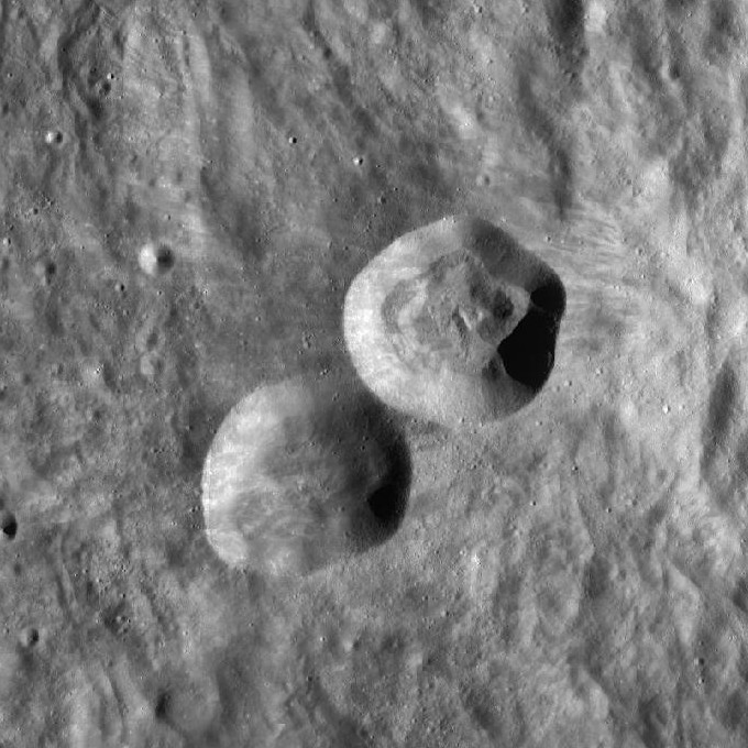 LRO image of Lents crater (below left of center), and Lents C (above right of center), on the far side of the moon, from the Wide Angle Camera (WAC).